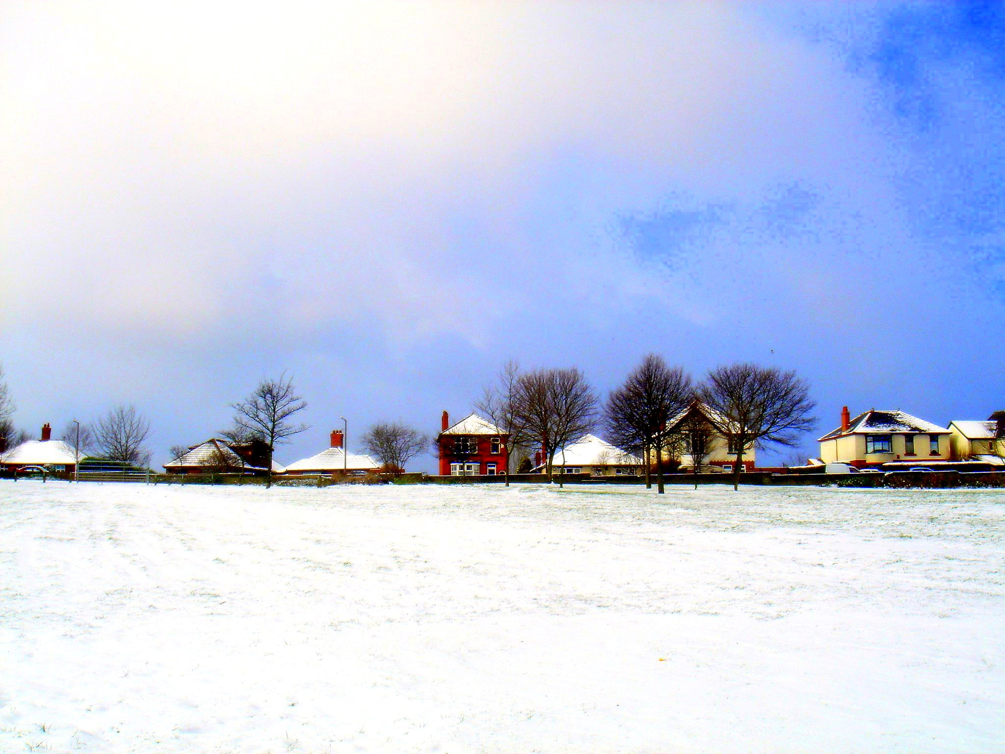 We do not have a great deal of snow in the Winter season, but when we have some it creates pretty white landscapes..